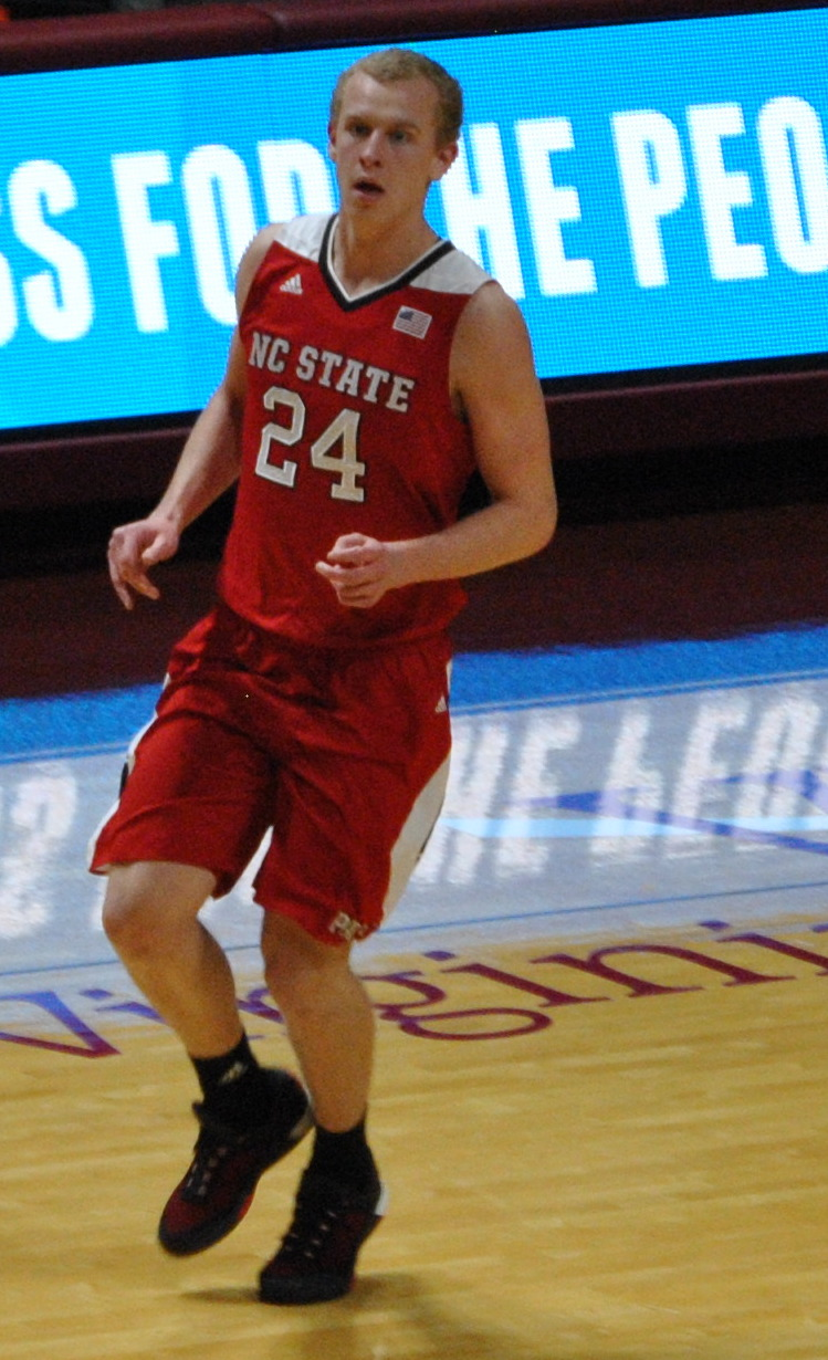 The Hokies and Wolfpack keep their eye on the ball at Cassell Coliseum